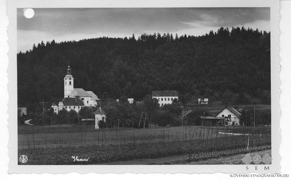 Postcard of Ihan